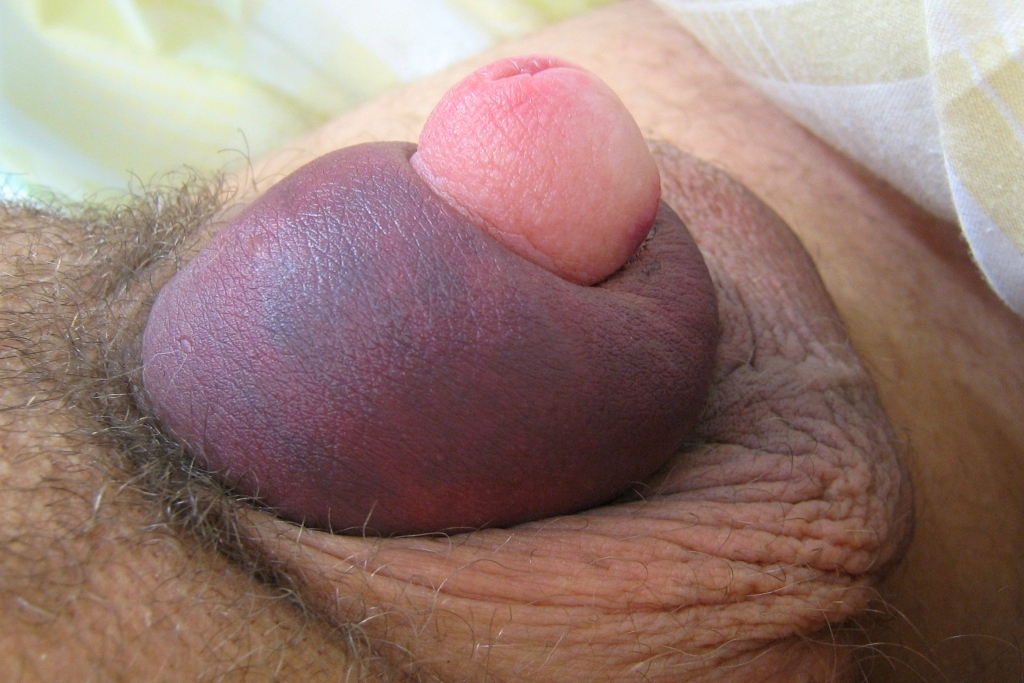 adult man in the evening after outpatient circumcision, complication